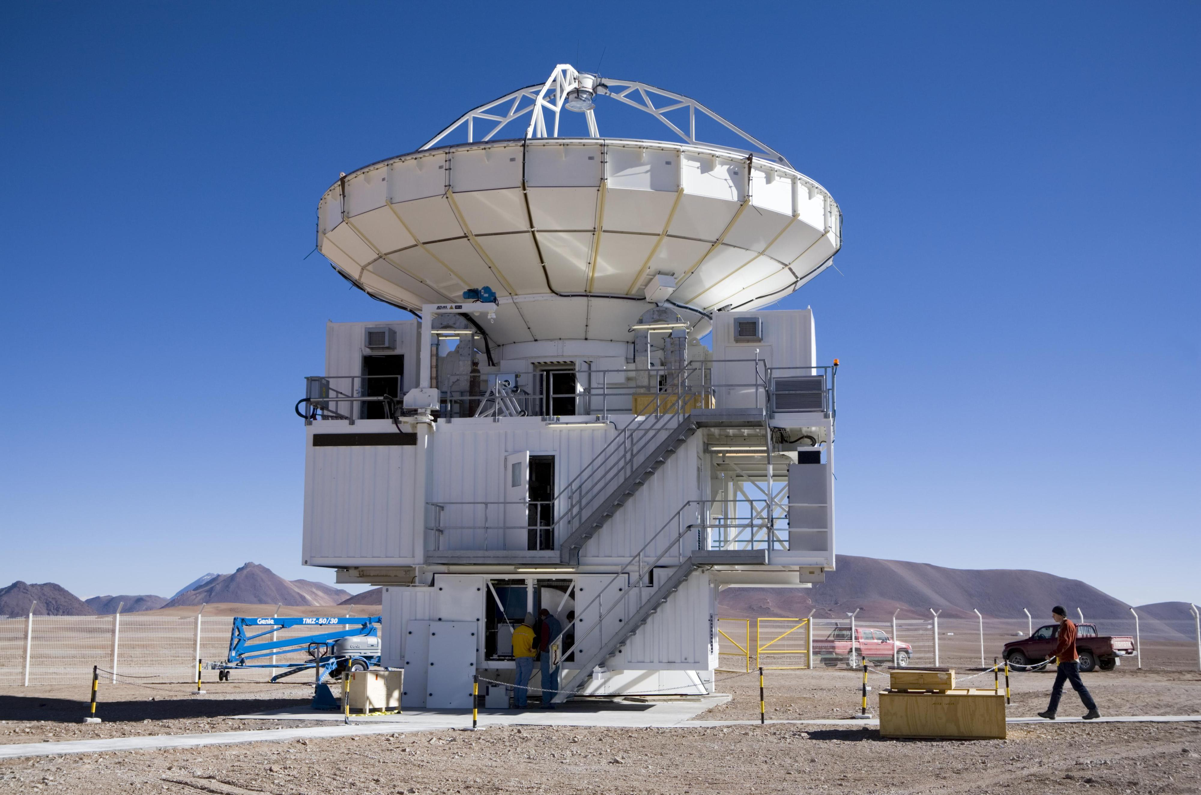 The Atacama Pathfinder Experiment (APEX) 12-m sub-millimetre telescope.